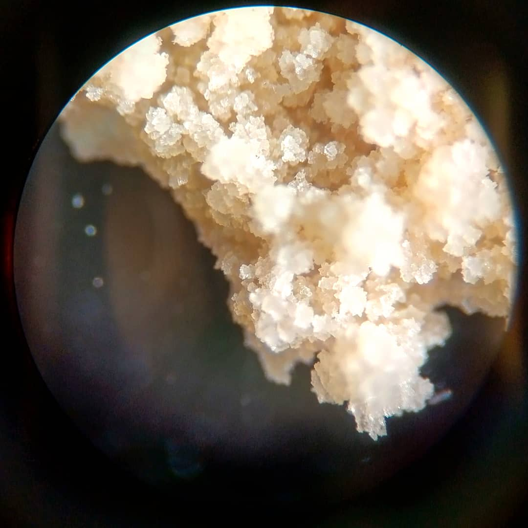 Sediment of minerals after boiling water in the kettle